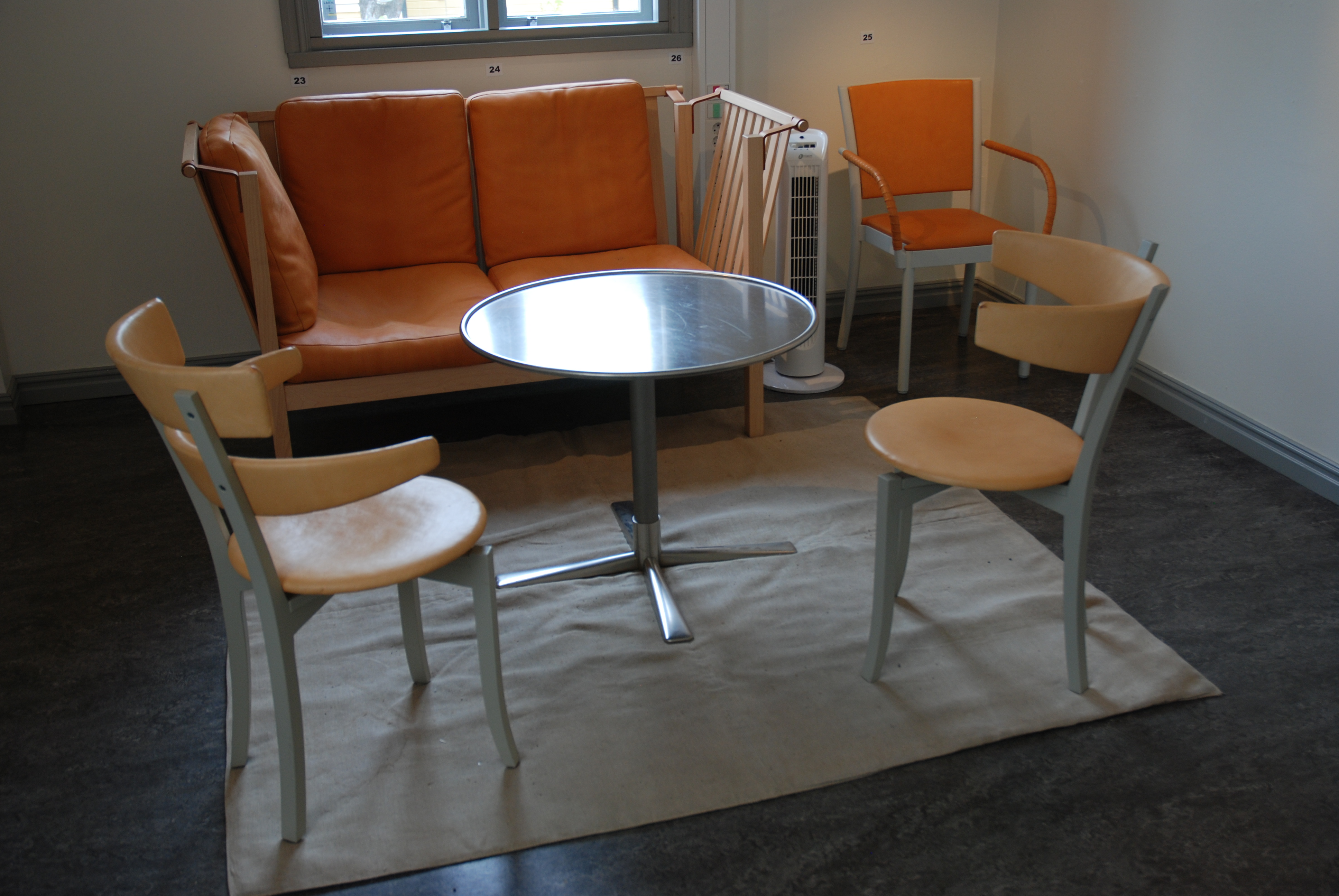 Furniture by Swedish designer Åke Axelsson at aqn exhibition at Vaxholm Town Hall 2011. Sofa Spring, 2006, table Rotor, 2006, two chairs Craft karmstol, 2010, chair Svea/Karm, 1995 (for Konstakademien (Swedish Academy of Fine Arts)